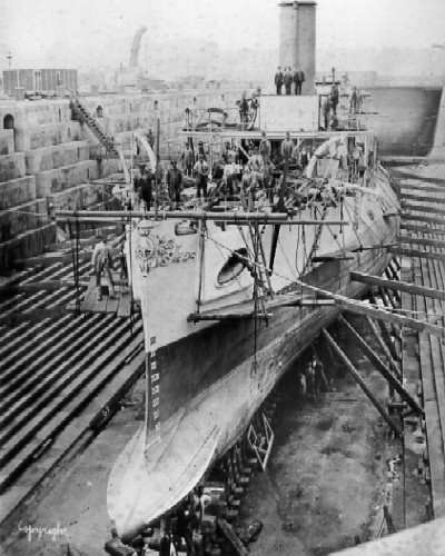 The torpedo ram HMS Polyphemus in drydock at Malta.